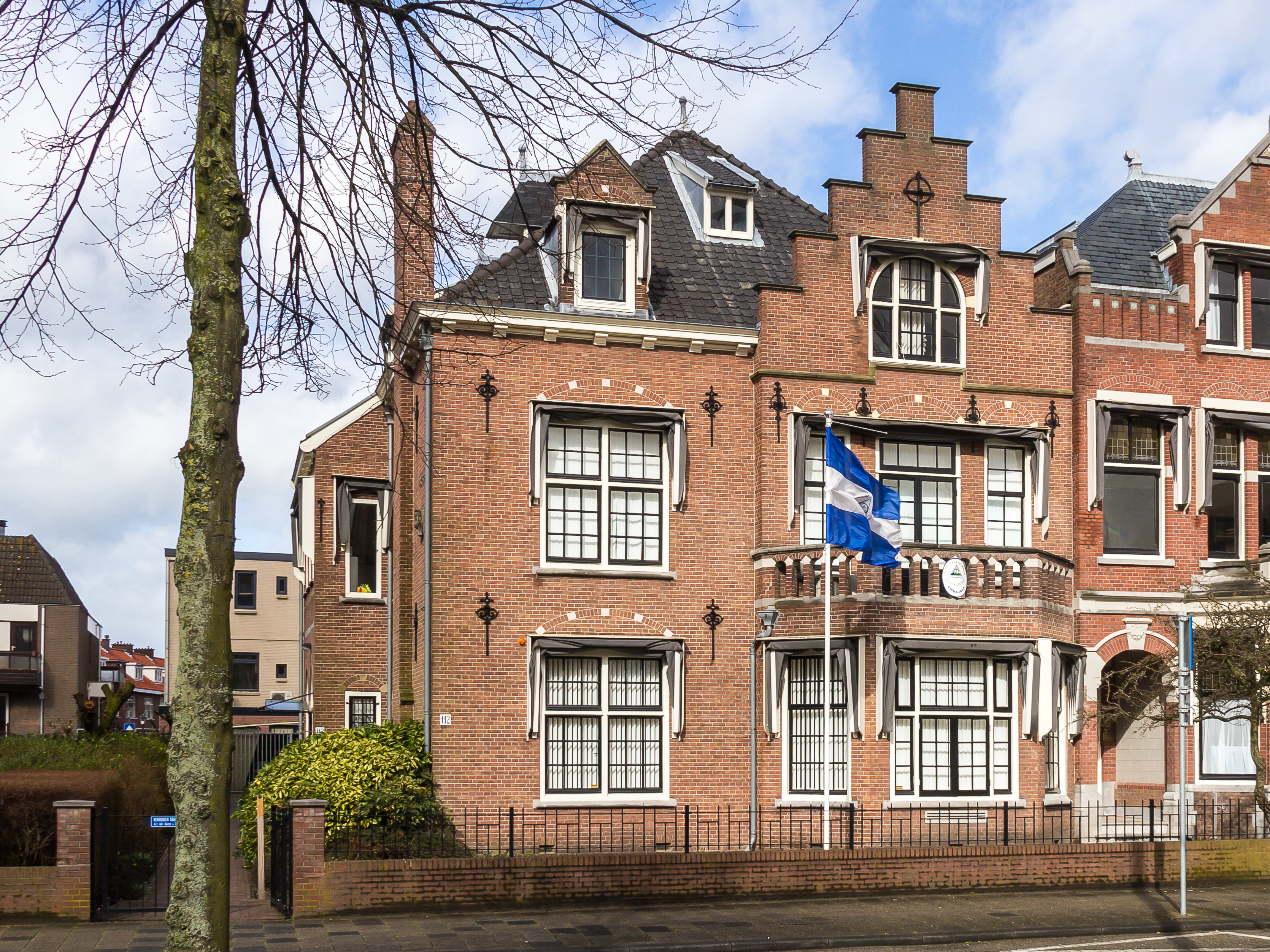 Embassy of Nicaragua in The Hague, Eisenhowerlaan 112, 2517 KM 's-Gravenhage